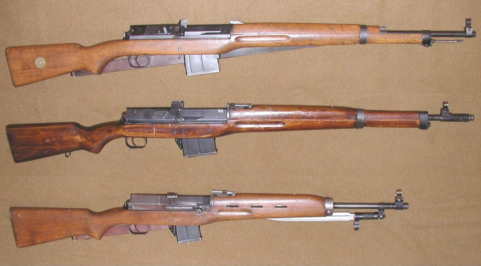 Composite photo of (top to bottom)